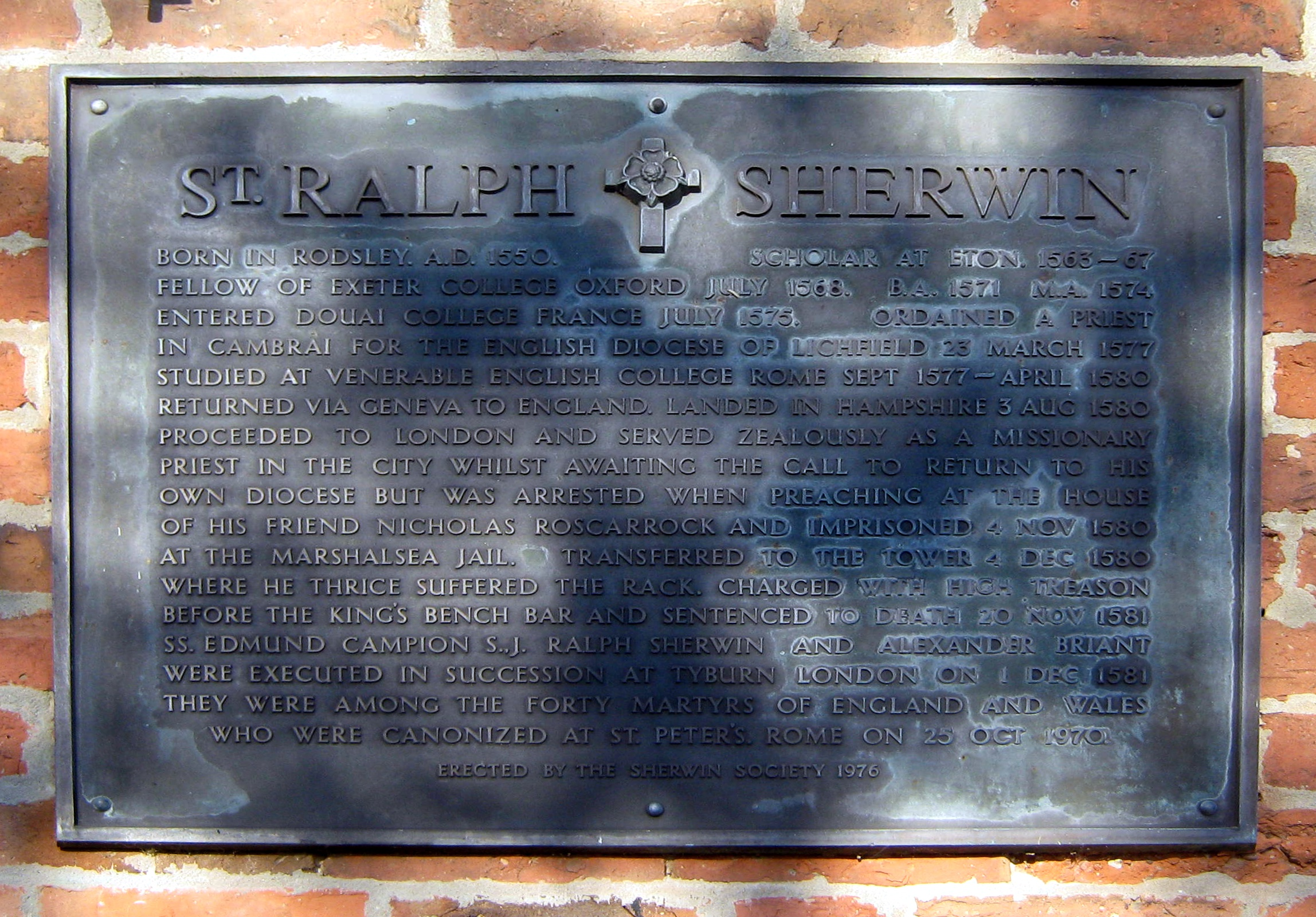 A plaque dedicated to the Catholic Saint called Saint Ralph Sherwin who was born in the village of Rodsley where this plaque is located in Derbyshire. Photo Taken: 06/11/10